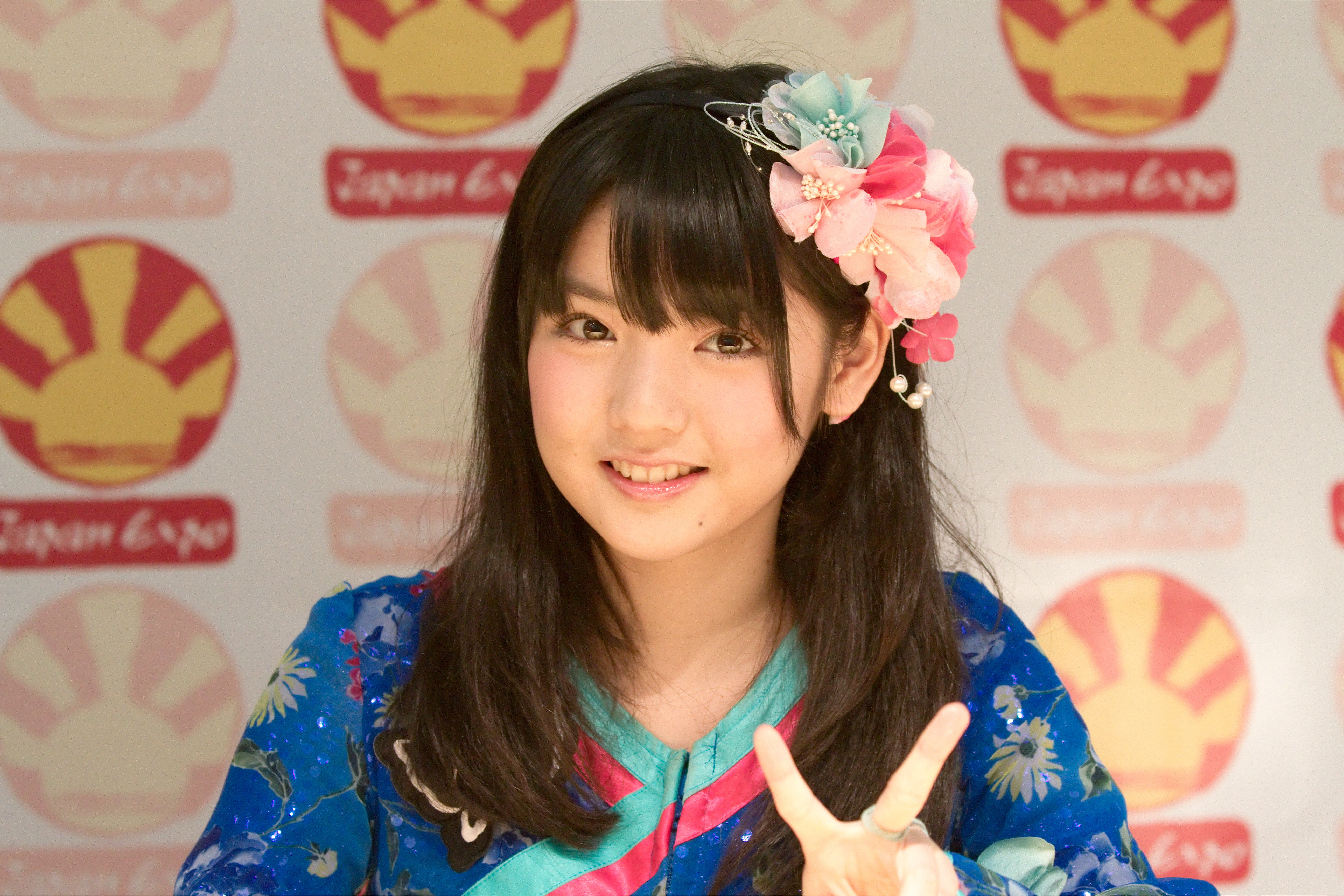 Sayumi Michishige of Morning Musume during autograph session at Japan Expo, Sunday, July 03, 2010 (Paris, France).